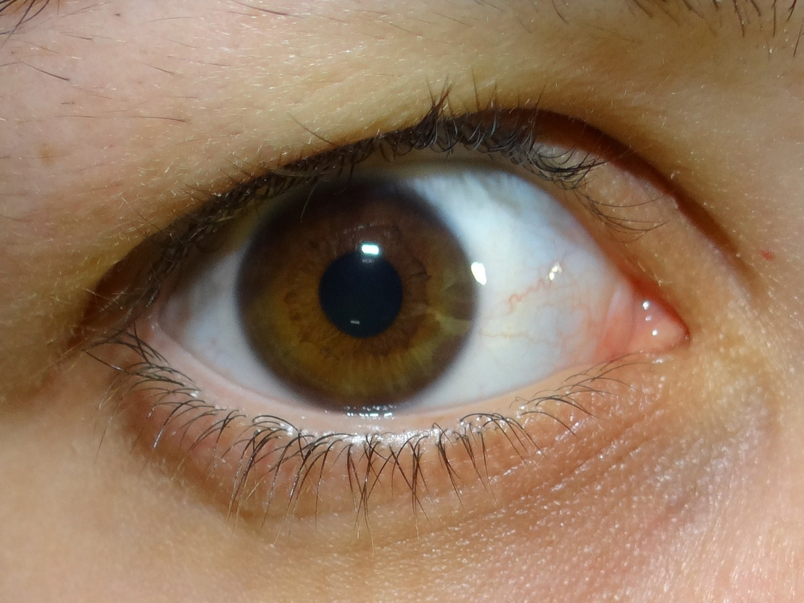 Brown eyes